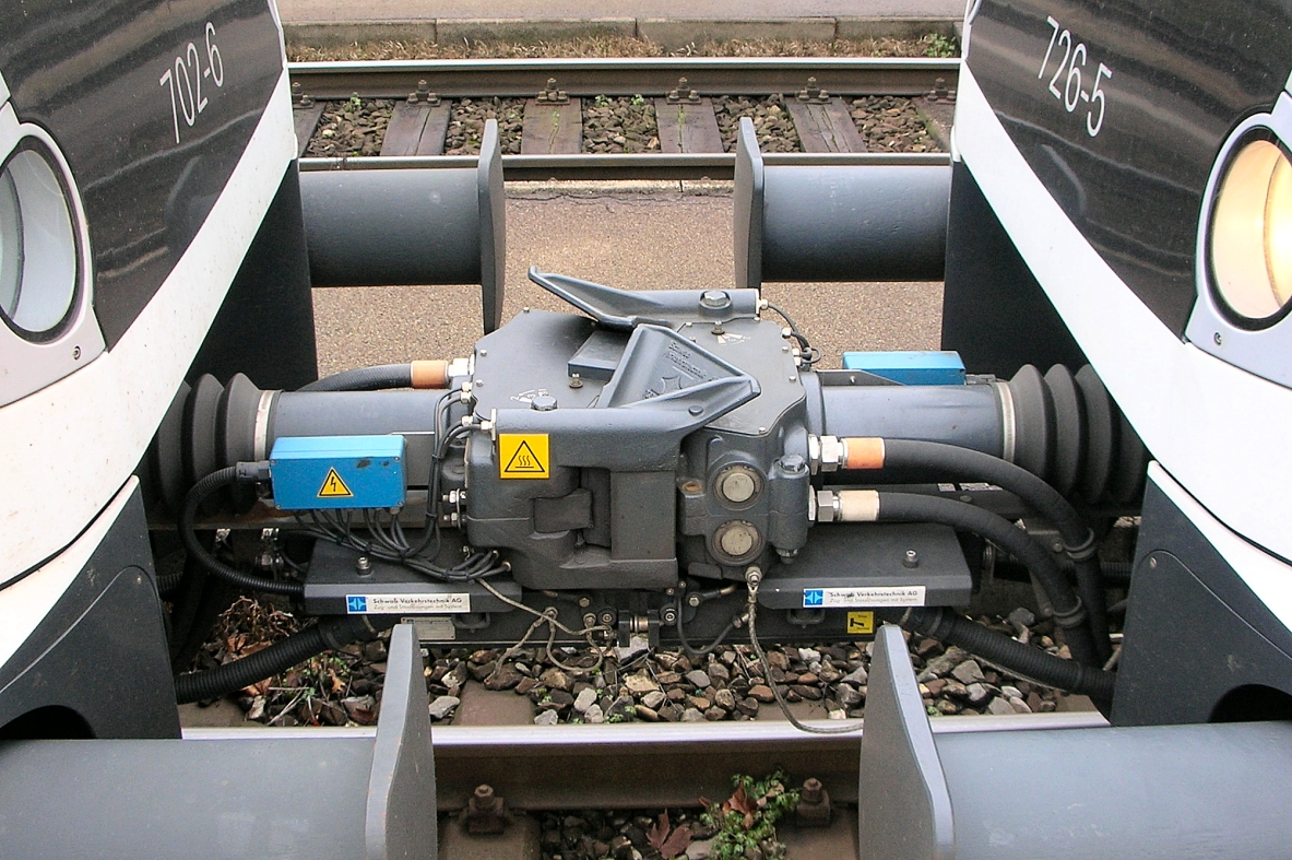 Coupling between two Thurbo commuter trains. Altstätten railway station, Dec 08, 2005.